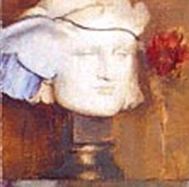 I lock my door upon myself - hypno (detail)